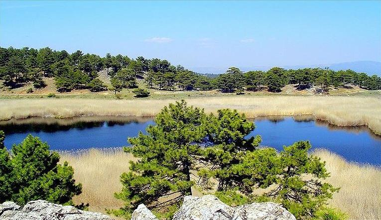 This work is free and may be used by anyone for any purpose. If you wish to use this content, you do not need to request permission as long as you follow any licensing requirements mentioned on this page.